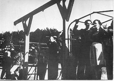 Execution of concentration camp guards at Biskupia Gorka: One of the Kapo's, Pauls, Steinhoff (left to right) before execution